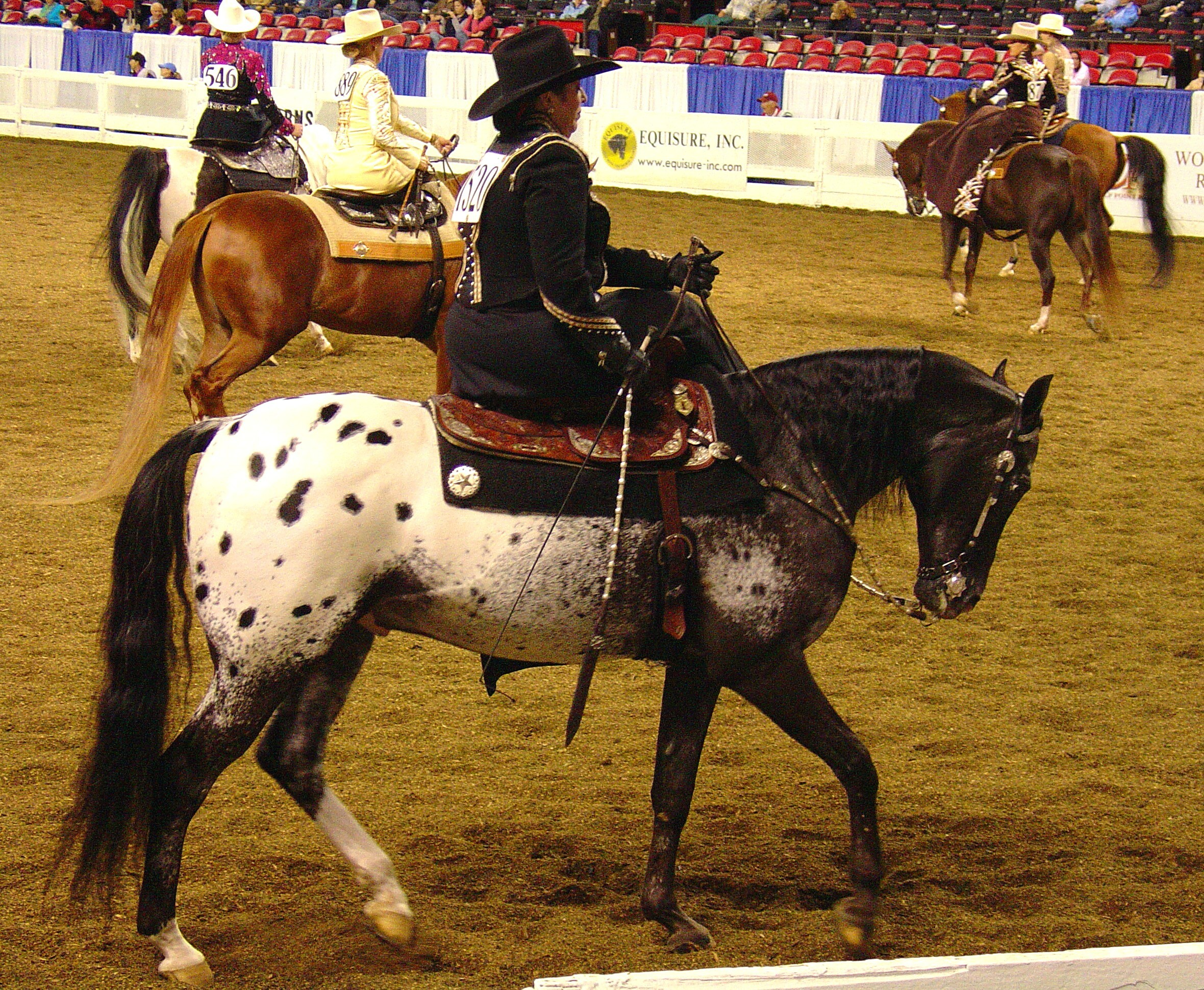 Photo by Heather abounader